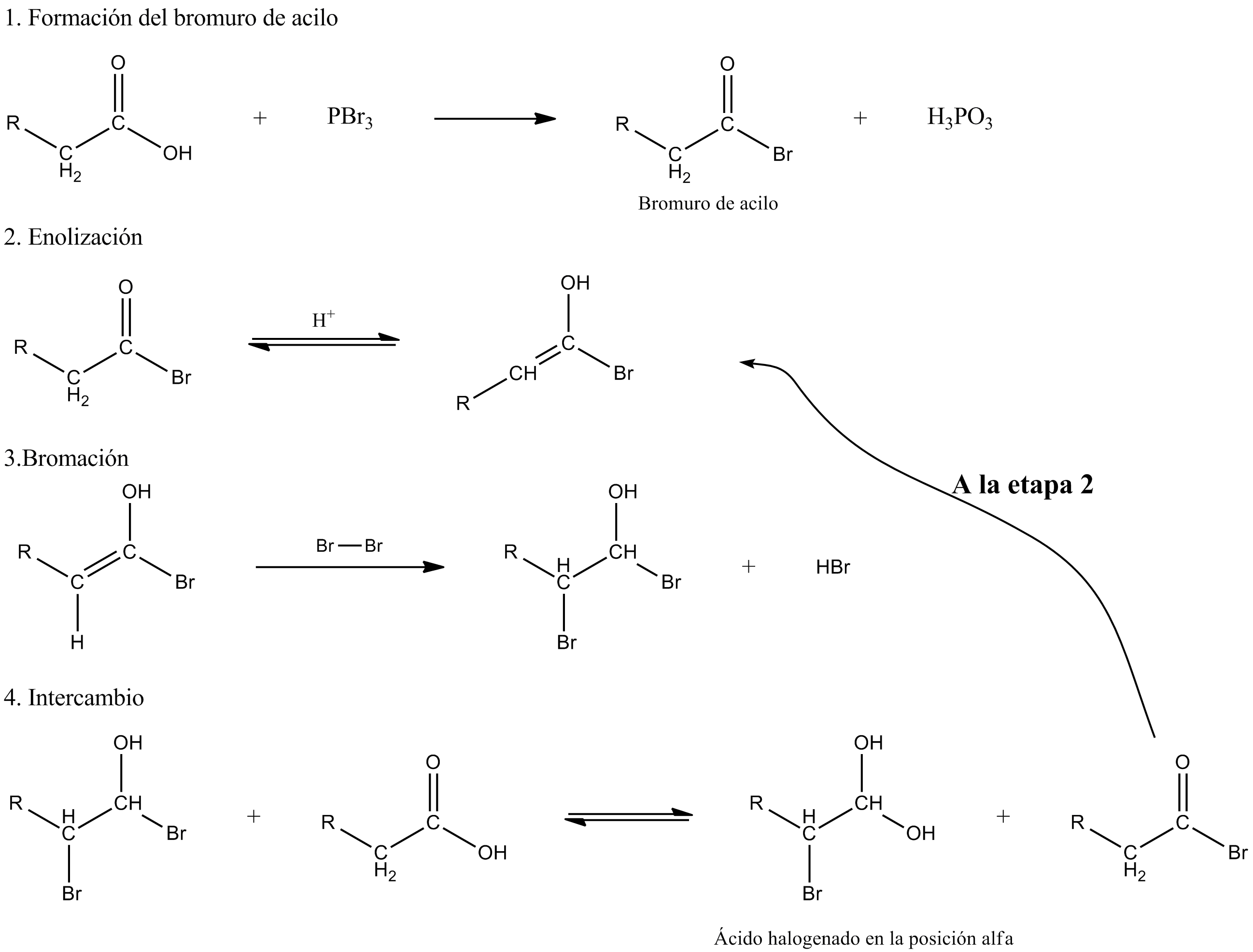 Hell-Vollhard-Zelinsky reaction mechanism